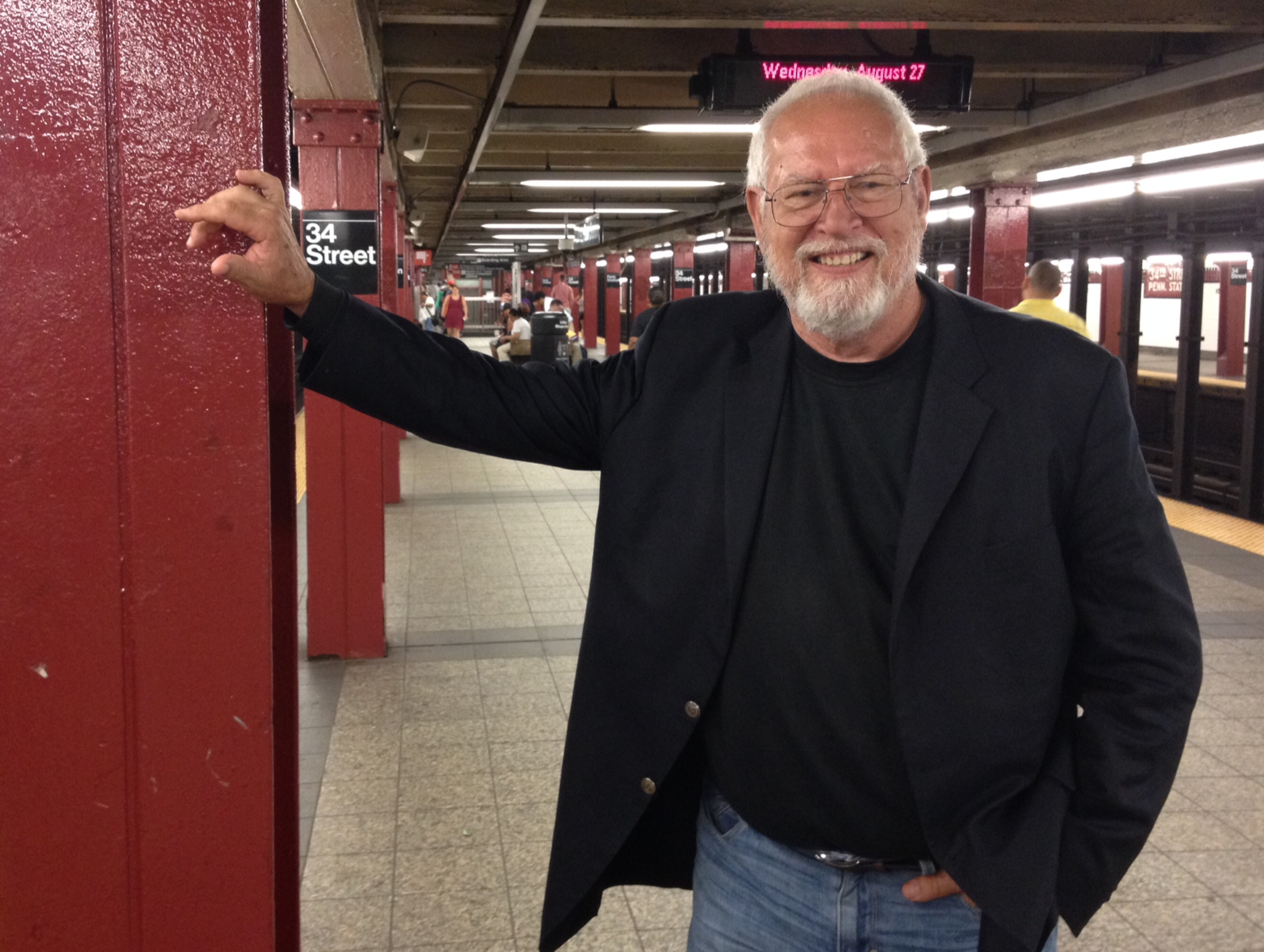 Dickson Despommier in the New York City subway.